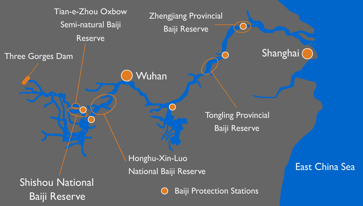 Map of conservation efforts of the baiji (Lipotes vexillifer) along the Yangtze